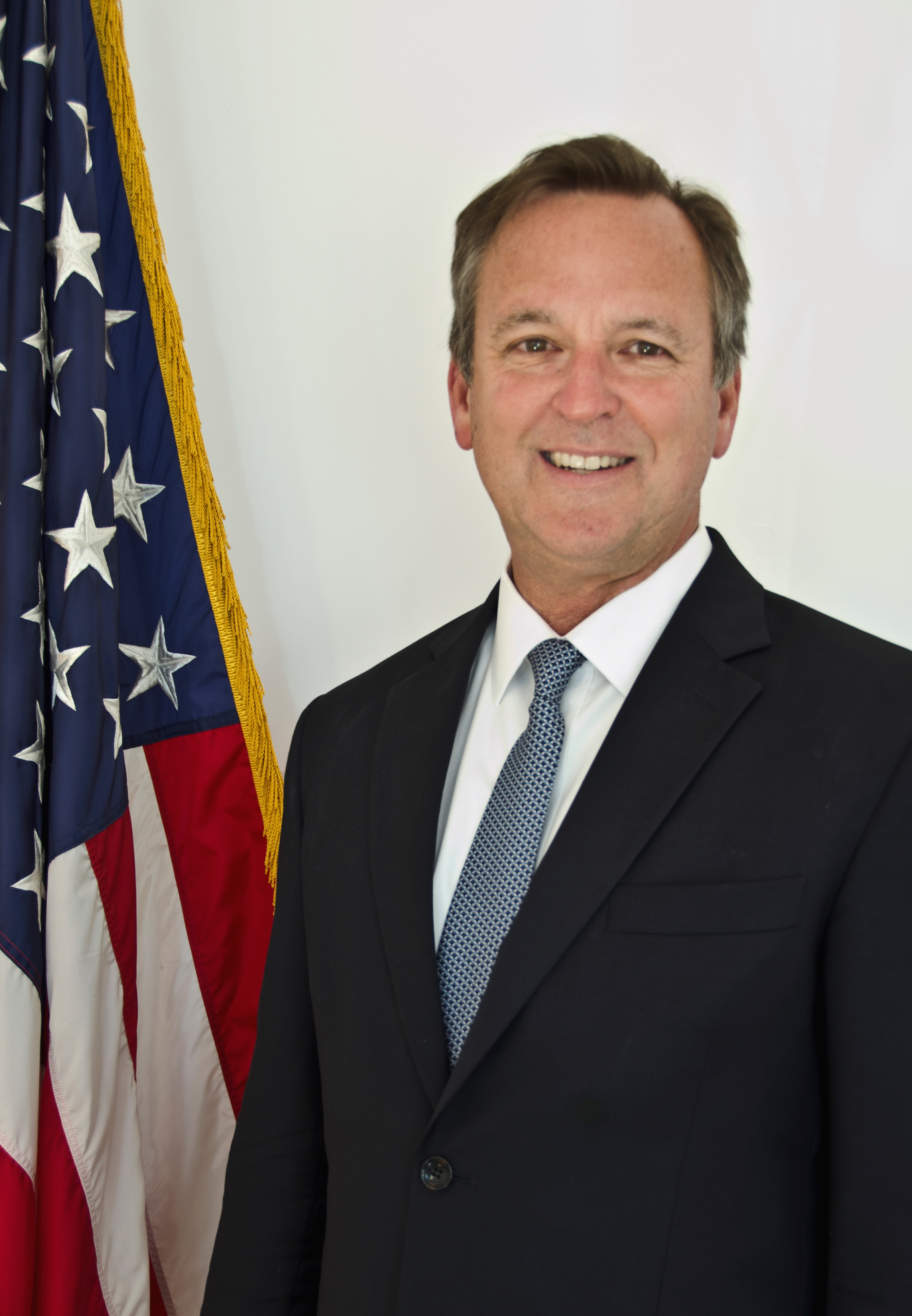 Official Photo of Ambassador David Lane